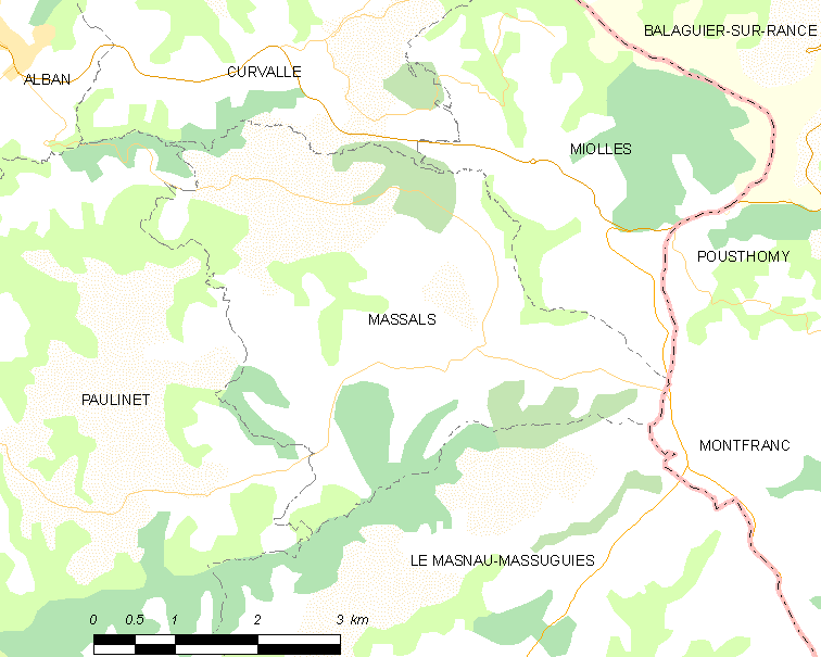 Map of French municipality Massals